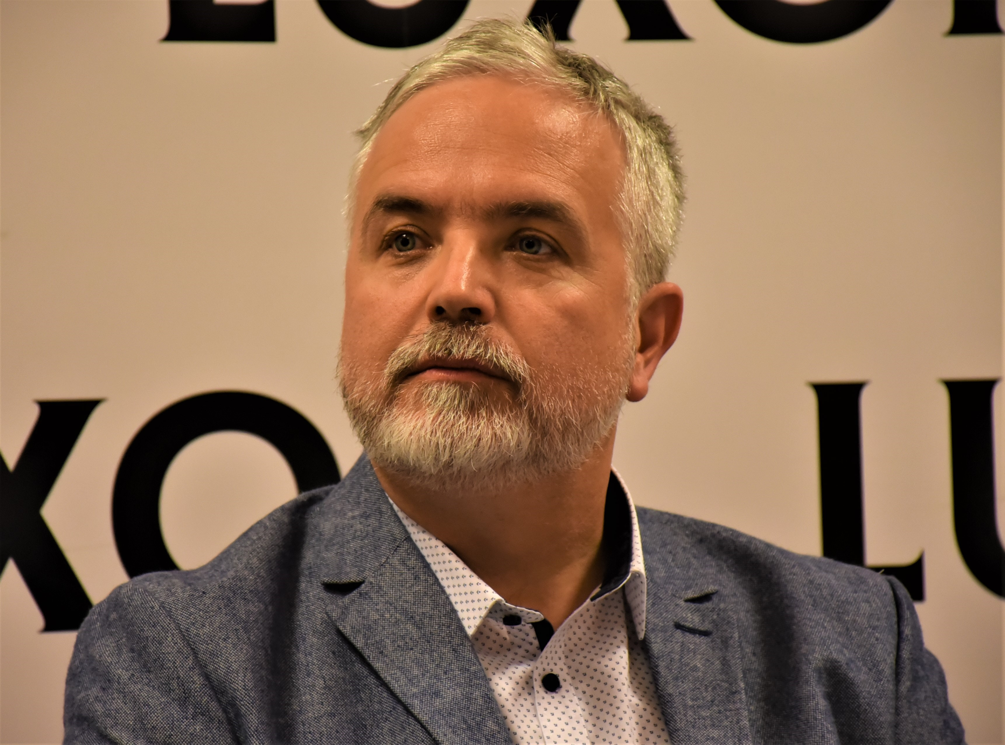 Ondřej Kepka, český herec